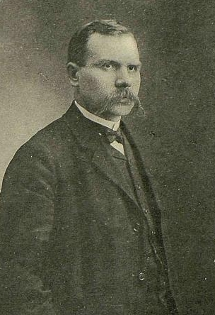 Andrey Bulat